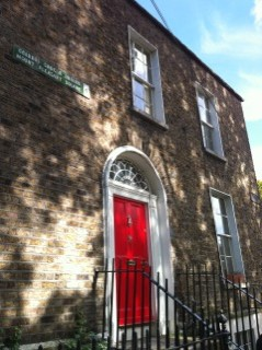 1 Mount Pleasant Square, Dublin. Built in 1831.